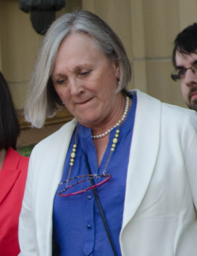 Maria Fitzpatrick at the 2015 Alberta Premier/Cabinet swearing-in ceremony, by Connor Mah.